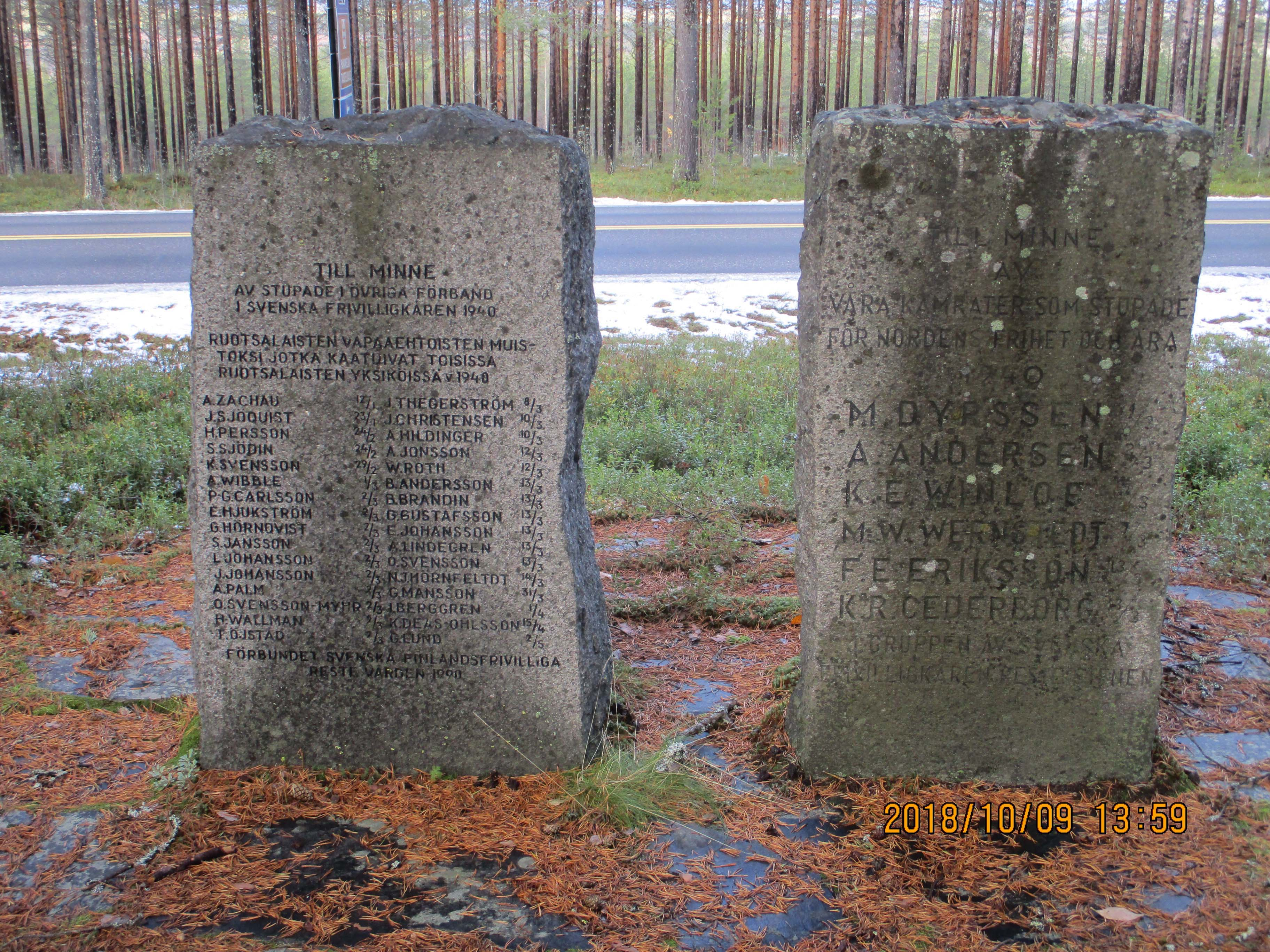 Monument of killed members of the Swedish volunteers at Märkäjärvi, Finland 1940.